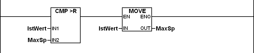 Ladder Diagram, search for maximum